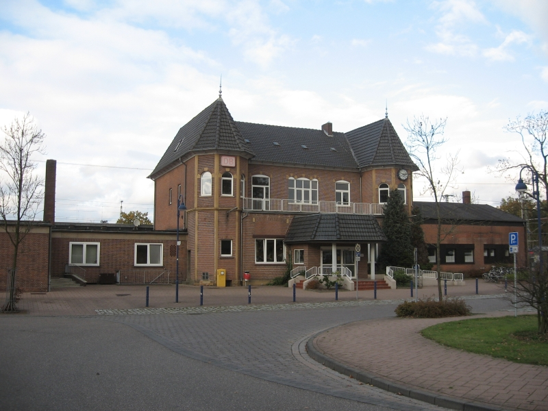 Train station building of Bad Bentheim, Lower Saxony, Germany